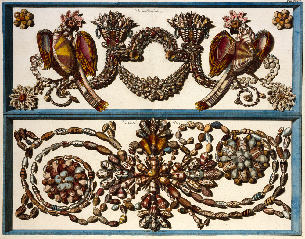 Shells. Illustration from a famous 18th-century work of reference, edited by Albertus Seba, a Dutch pharmacist and collector of zoological and other natural subjects.